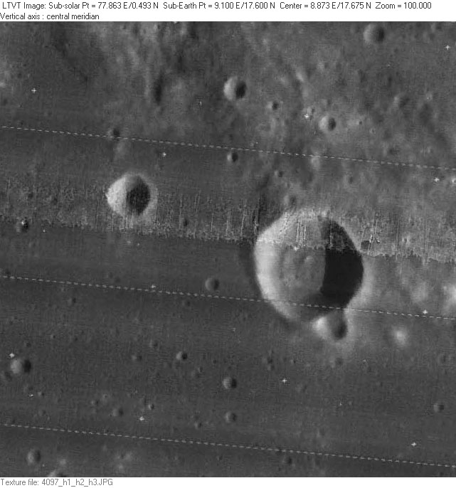 LO-IV-097H Bowen is to the right of center. The 3-km crater in the upper left is Manilius H. The dark mare-like region southwest of Bowen is Lacus Doloris.